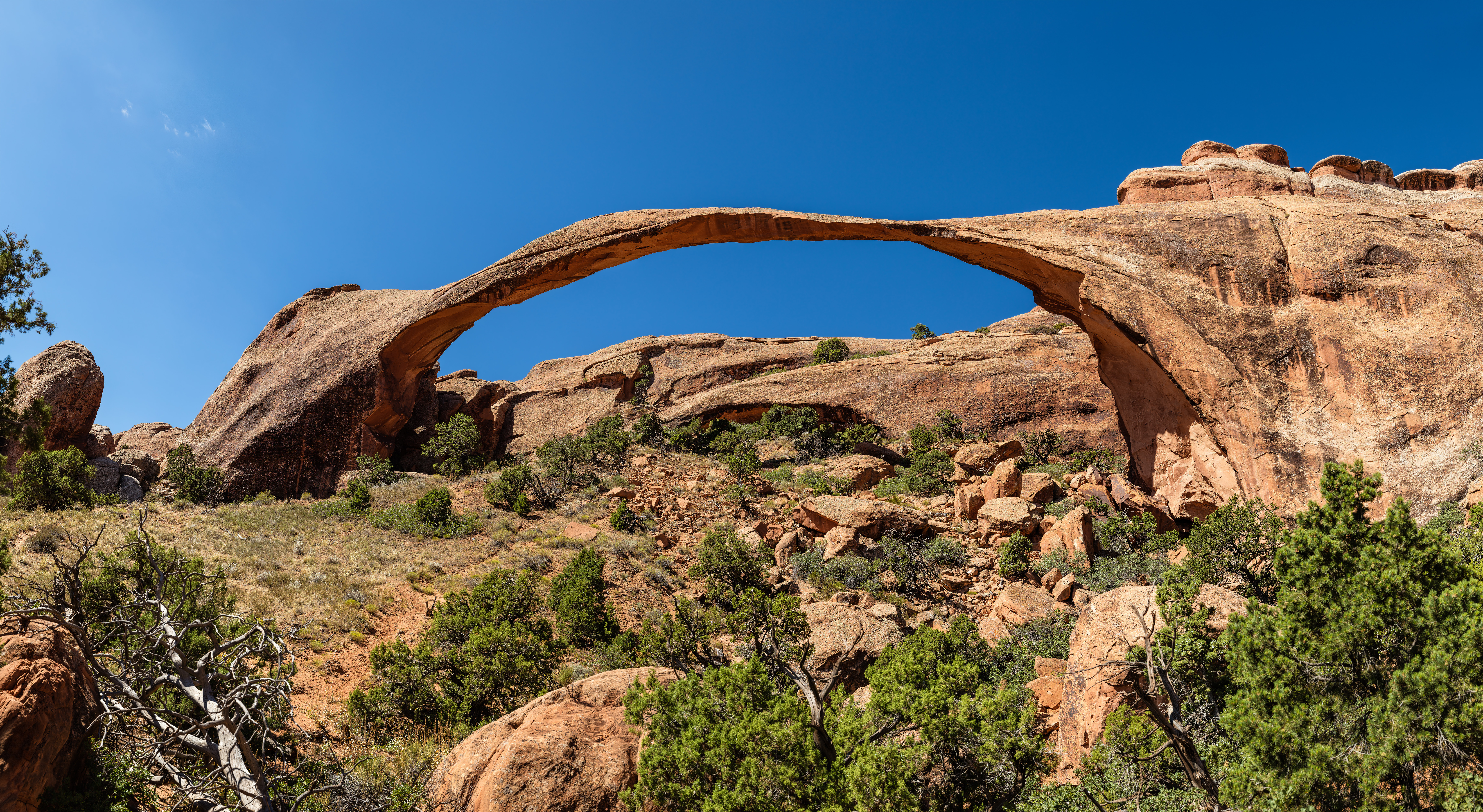 Landscape Arch in Arches National Park, Utah, USA